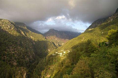 Jabal Moussa Biosphere Reserve